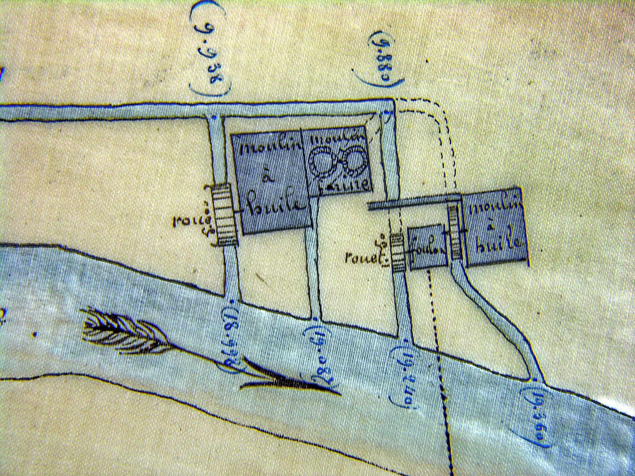 Mons (Var), Moulin de Mons in 1870, private collection